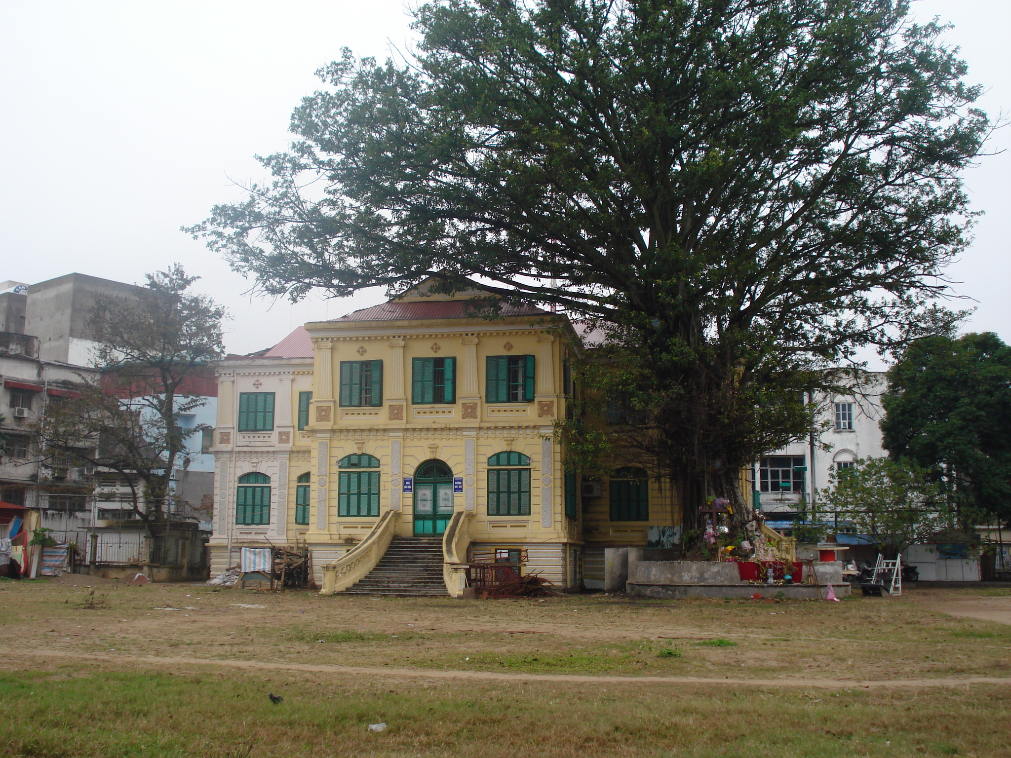 Porcelain Mosaics Hanoi Court building is located at 42 City Homes, hoan Kiem, Ha Noi capital, together with the Cathedral of Hanoi. This was used as the headquarters of the Vatican representative in Vietnam from 1950 to 1959.